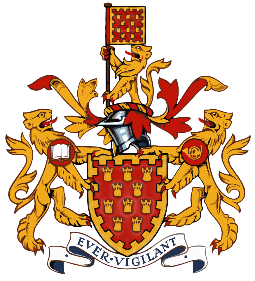 The coat of arms granted by the College of Arms to the Greater Manchester Council are described as the following: Shield: Gules ten Towers three two three two all within a Bordure embattled Or. (Representing the ten cities and boroughs of the County.) Supporters: On either side a lion Or each surmounted on the shoulder by a Roundel Gules that to the dexter charged with an open Book and that to the sinister charged with a French Horn proper. (The lions representing England, the book representing academia, and the French horn representing music and culture.) Crest: On a Wreath of the Colours a demi Lion Or supporting a Staff proper flying therefrom a Banner of the Arms. (Another English lion bearing a simple banner of the arms.) Motto: Ever Vigilant.